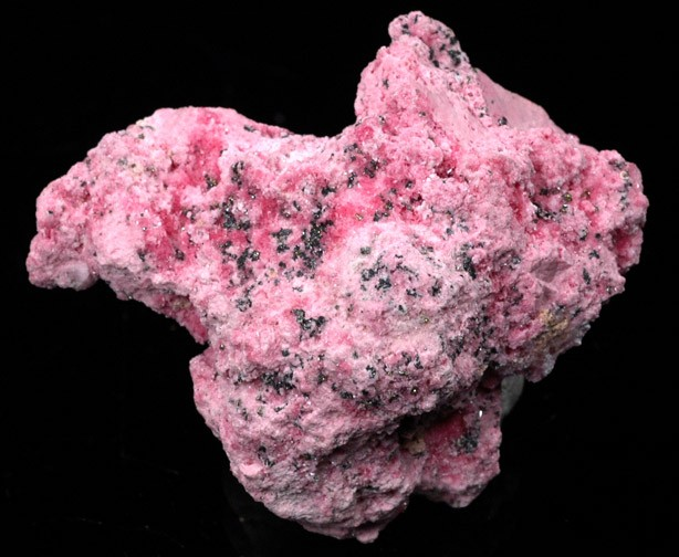 Alleghanyite Locality: Sunnyside Mine (American Tunnel; Mogul Mine; Washington Mine; Belle Creole; Gold Prince; Brenneman Mine; Sunnyside Mine Group), Howardsville, Silverton District, San Juan County, Colorado, USA (Locality at ) These crystals, despite their size, are some of the finest color, exceptionally well crystallized Alleghanyites youll see from any locality. Typically Alleghanyite forms in pinkish-grey or pinkish-brown color crystals, if theyre even crystallized at all (most Alleghanyite Ive seen is anhedral and good crystals are few and far between in this world. With that said, the crystals on this piece are wonderfully crystallized and have a superb vibrant pink color. The color is truly as good as any locality gets. The crystals are rather small (mostly micros), but there are dozens upon dozens of them loaded in/on a massive lighter pink color Pyroxmangite matrix with minor sulfides and Quartz. This is XRD confirmed Alleghanyite, and could actually be broken up into several killer micromounts that would satisfy plenty of collectors. 6.8 x 5.6 x 3.7cm